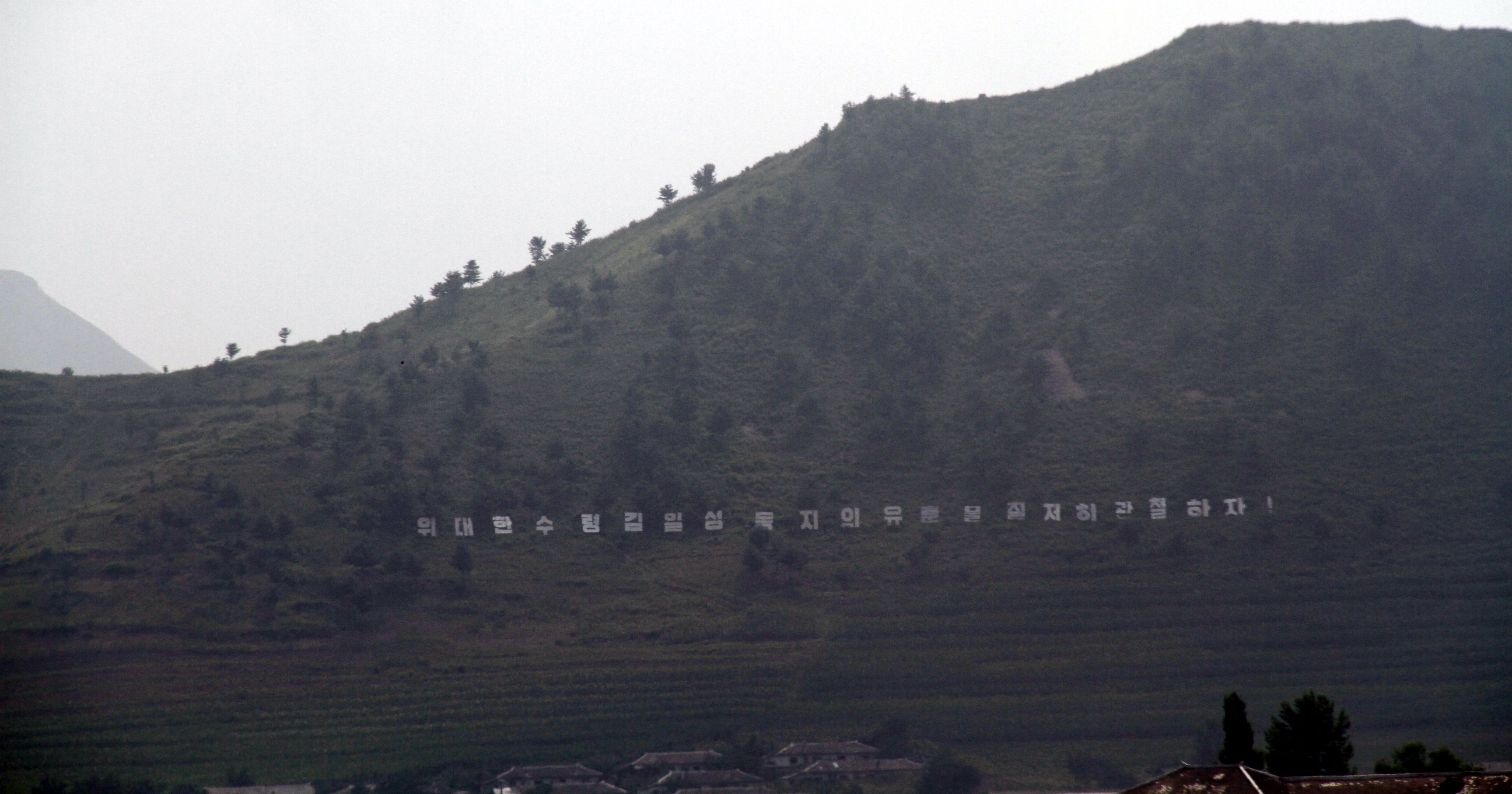 Photograph of Korean characters set on a moutain slope above the town of Manpo seen from the Ji'an Yalu River Border Railway Bridge between Ji'an, Jilin Province, China and Manp'o, Chagang Province, North Korea.